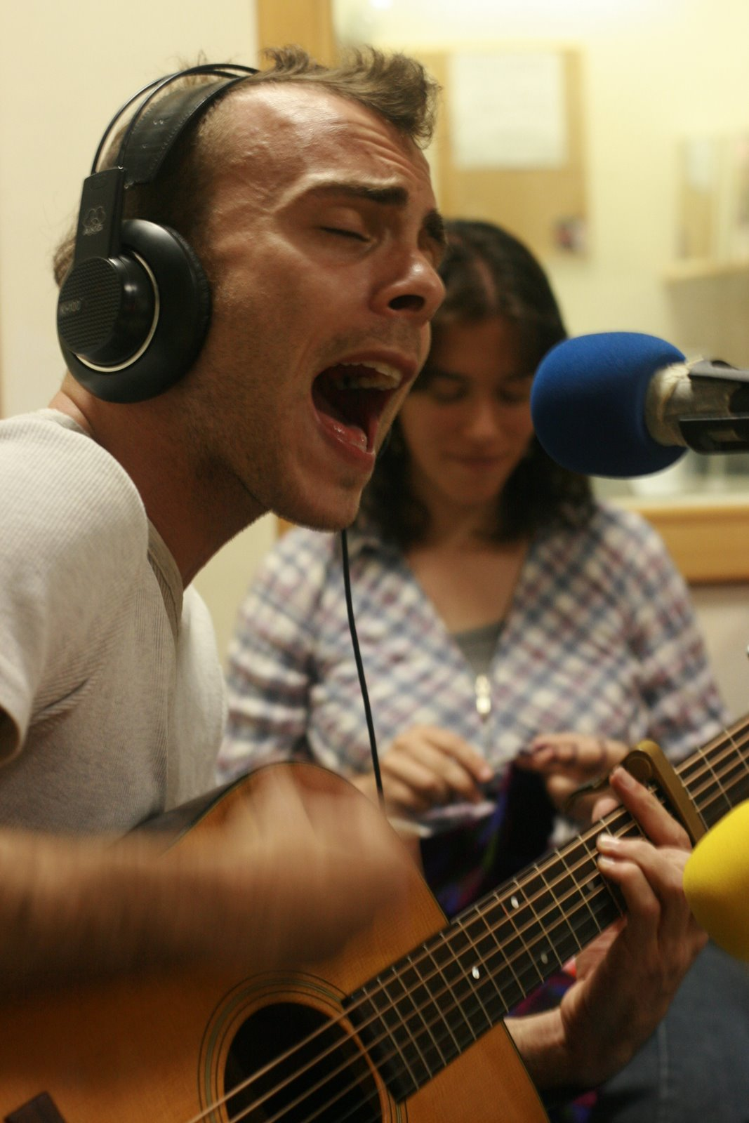 Asaf Avidan live in Har Hatzofim Radio, 2007